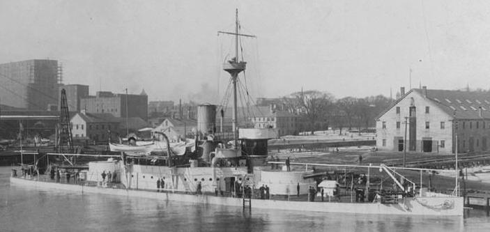 A cropped photograph of the USS Amphitrite at the Boston Navy Yard. Original found at